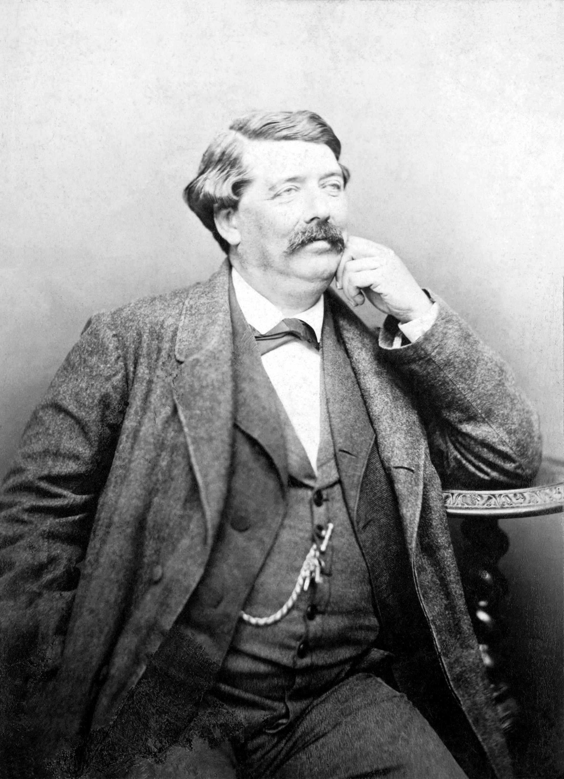 Photograph of Hippolyte de Villemessant (1810–1879) French media proprietor by Nadar.